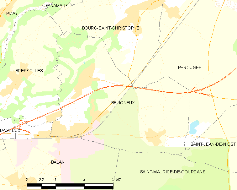 Map of French commune: Béligneux Map commune FR insee code 01032.png